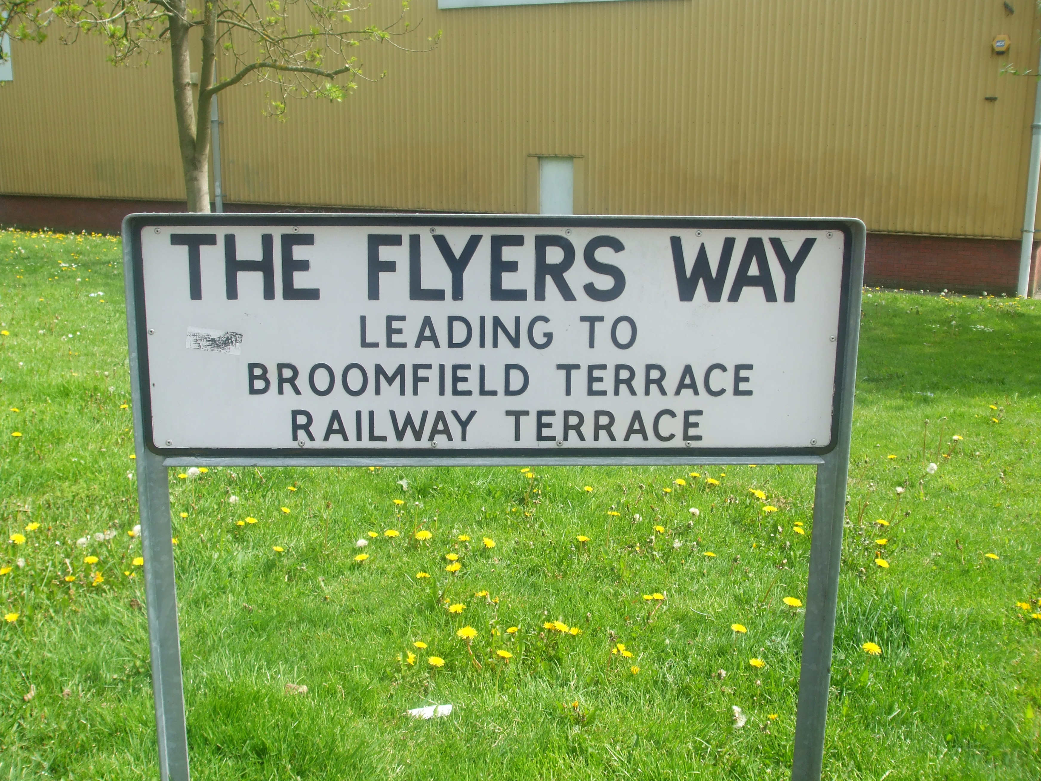 Road leading to the site of Westerham Railway Station, Kent